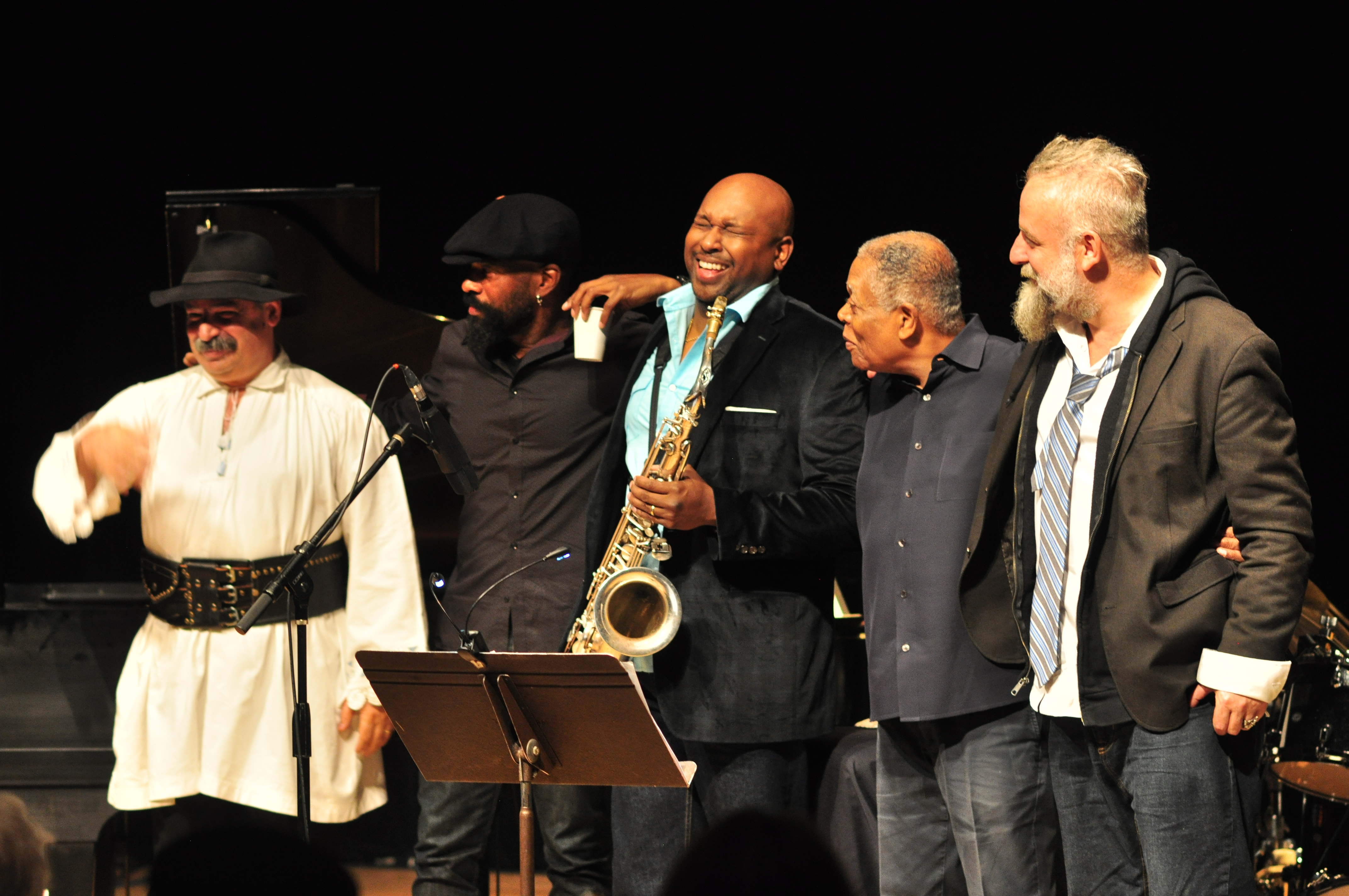 Transylvanian folksinger Gavril Țărmure and jazz bassist Brad Jones, saxophonist Abraham Burton, drummer Billy Hart, and violist Mat Maneri after performing Lucian Ban's Songs from Afar as a version of Ban's group Elevation, Plestcheeff Auditorium, Seattle Art Museum, Seattle, Washington, U.S. Ban himself not visible in this photo